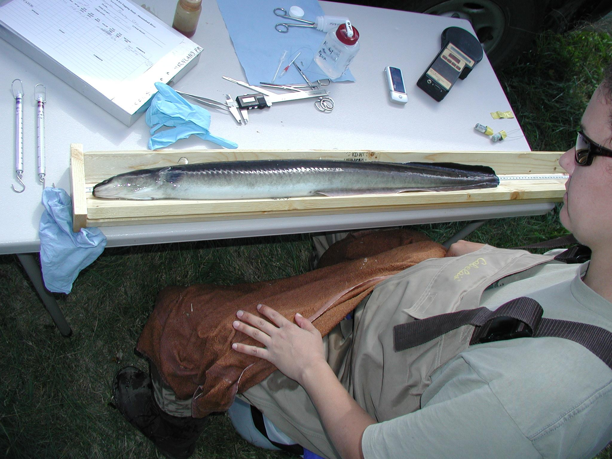 Silver eels collected in Shenandoah River to be radio tagged for a tracking study. American eels begin sexual differentiation at a length of about 8 to 10 inches and, depending on eel density, become male or female silver eels. Credit: Maryland Fishery Resources Office, USFWS